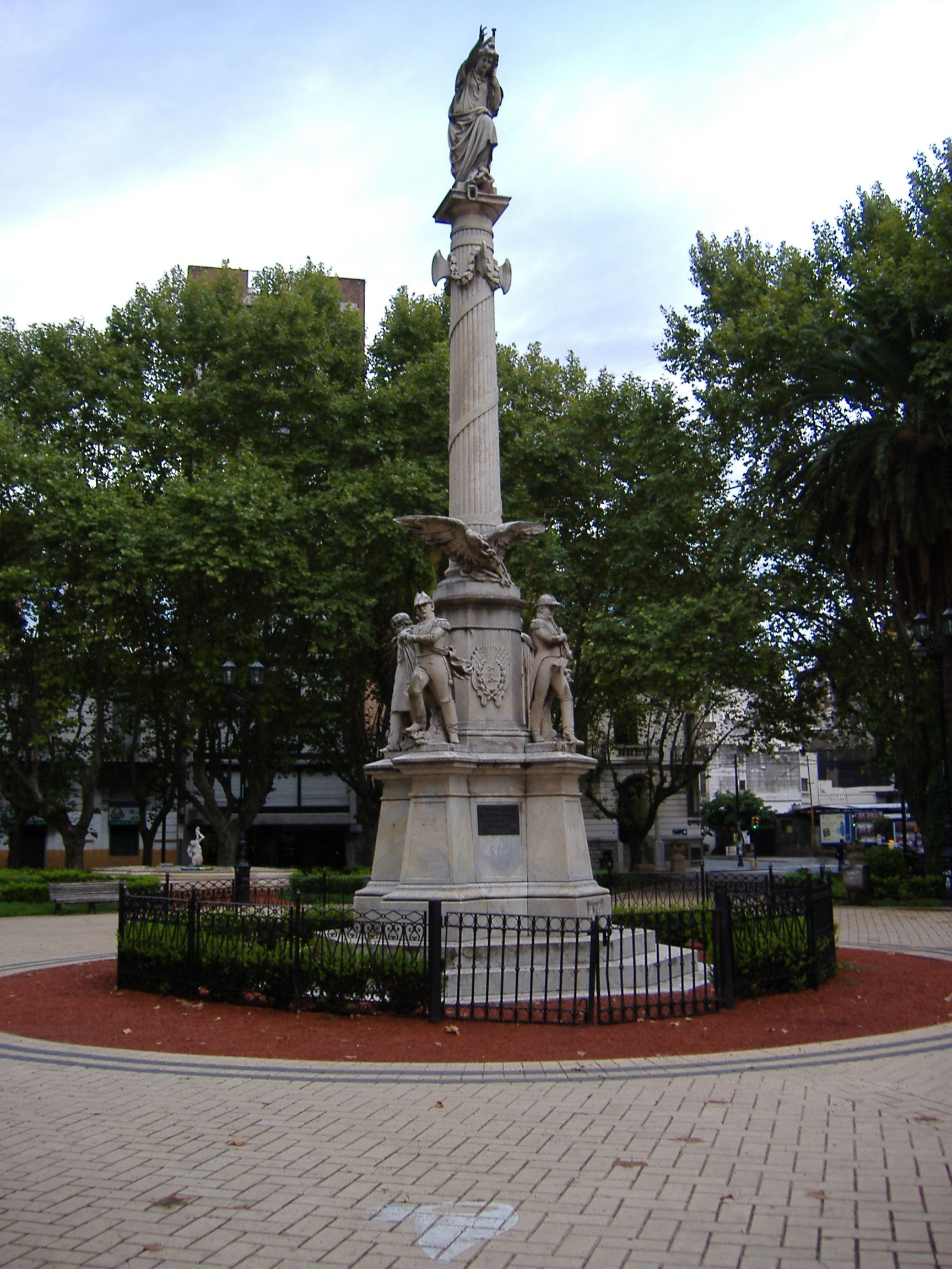 Plaza 25 de Mayo (May 25th Square) in Rosario, Argentina. I, Pablo D. Flores, took this picture on 28 February 2006.